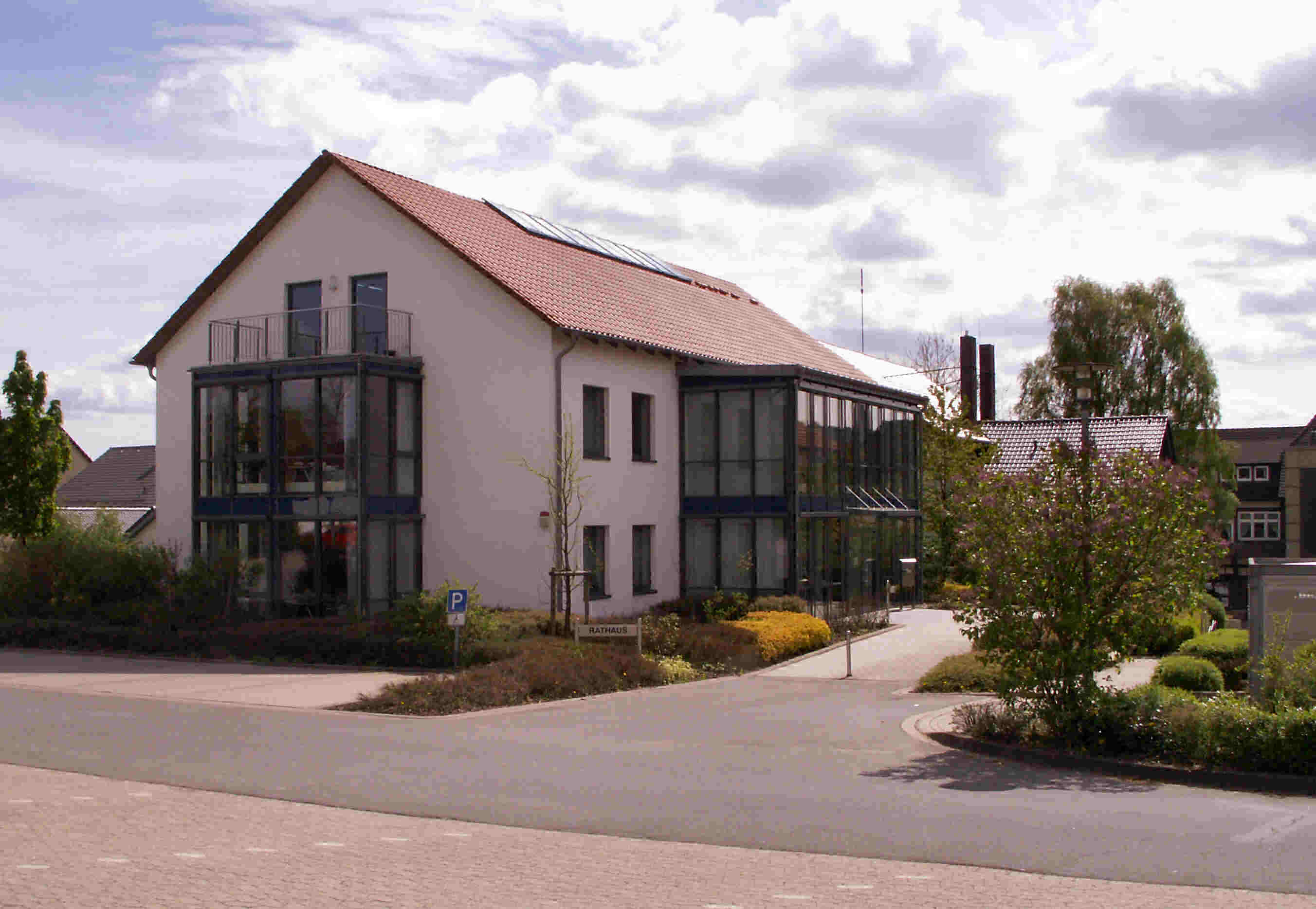 City Hall in the district Kalletal Hohenhausen, west side, new building at the old former council house.